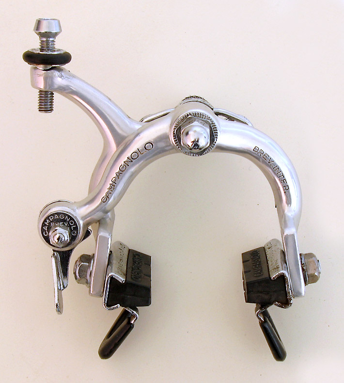 picture of Campagnolo Record brake caliper from the 1970s, plastic coated brake pad holders are from the 80's.70's originals were all chrome with writing on the wheelguides